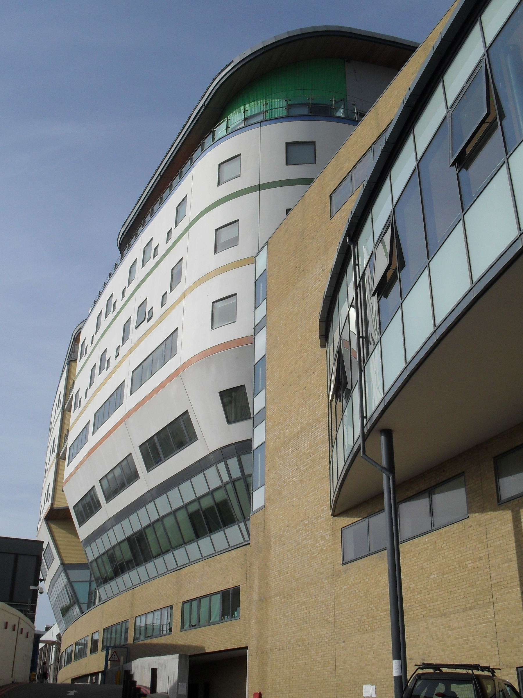 Royal Alexandra Children's Hospital, Eastern Road, Kemptown, City of Brighton and Hove, East Sussex. The award-winning new hospital building opened in 2007 on the Royal Sussex County Hospital campus. Building Design Partnership and Kajima were the designers and building contractors respectively. This view is from the southeast, taken on the RSCH campus.